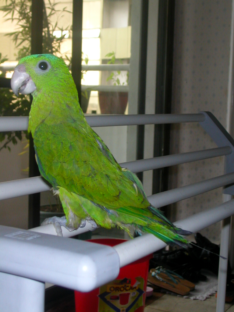 A juvenile Blue-crowned Racquet-tailed Parrot in captivity.